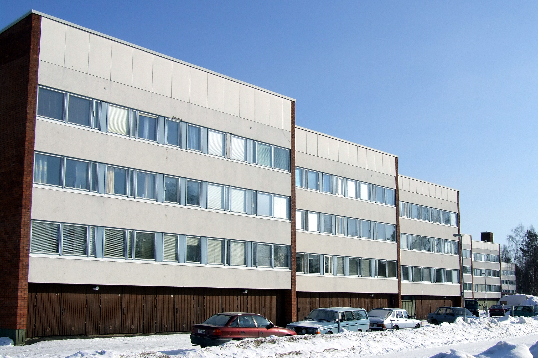 Apartment buldings on Veturitie street in Nokela, Oulu, Finland